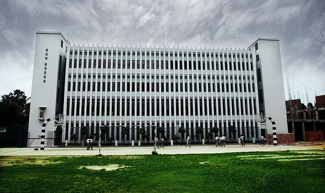 Main Building at DBB